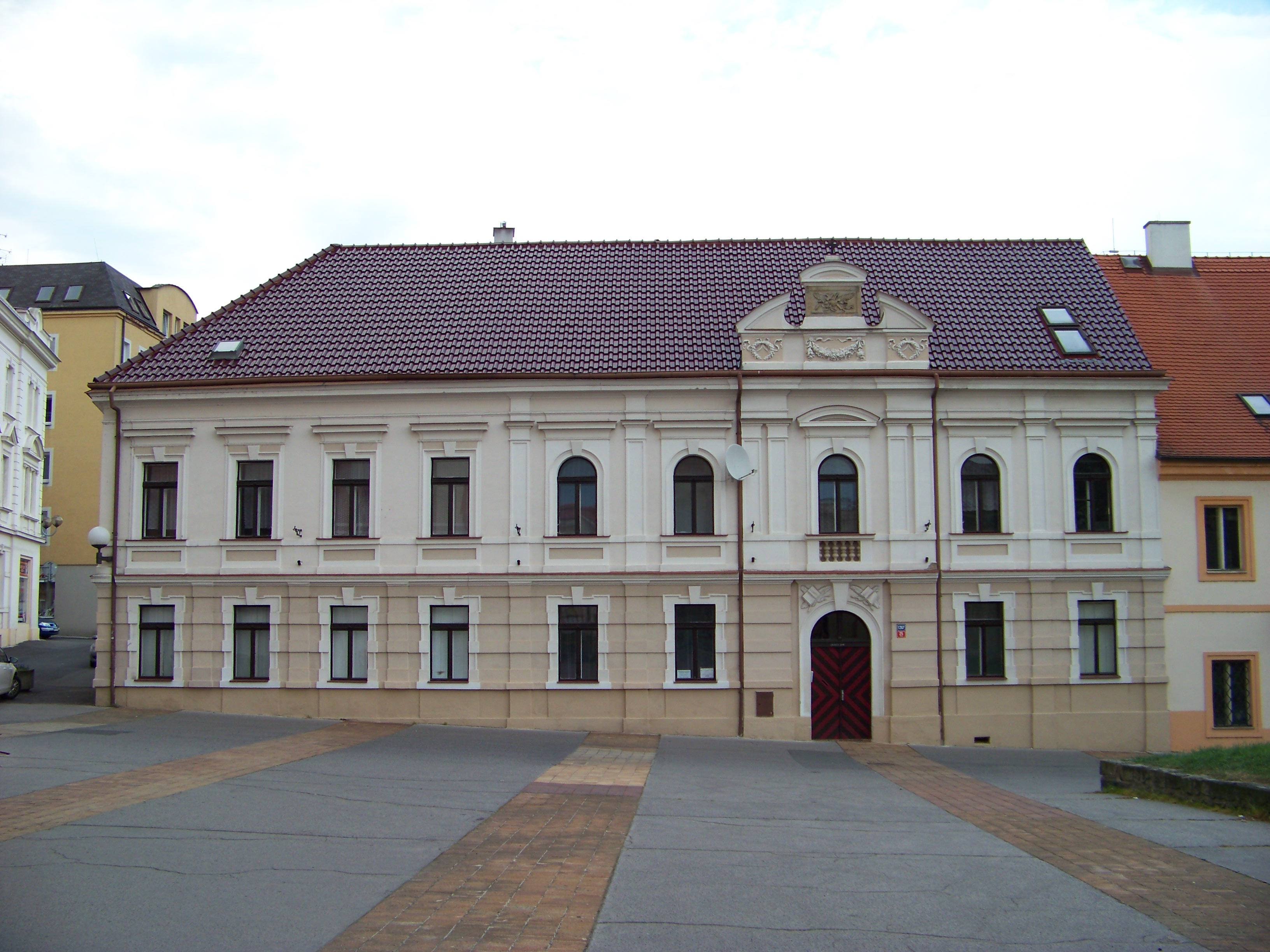 Děčín I-Děčín, Děčín District, Ústí nad Labem Region, the Czech Republic. Křížová 1267/25, seen from Dlouhá jízda street. - OpenStreetMap(Info)